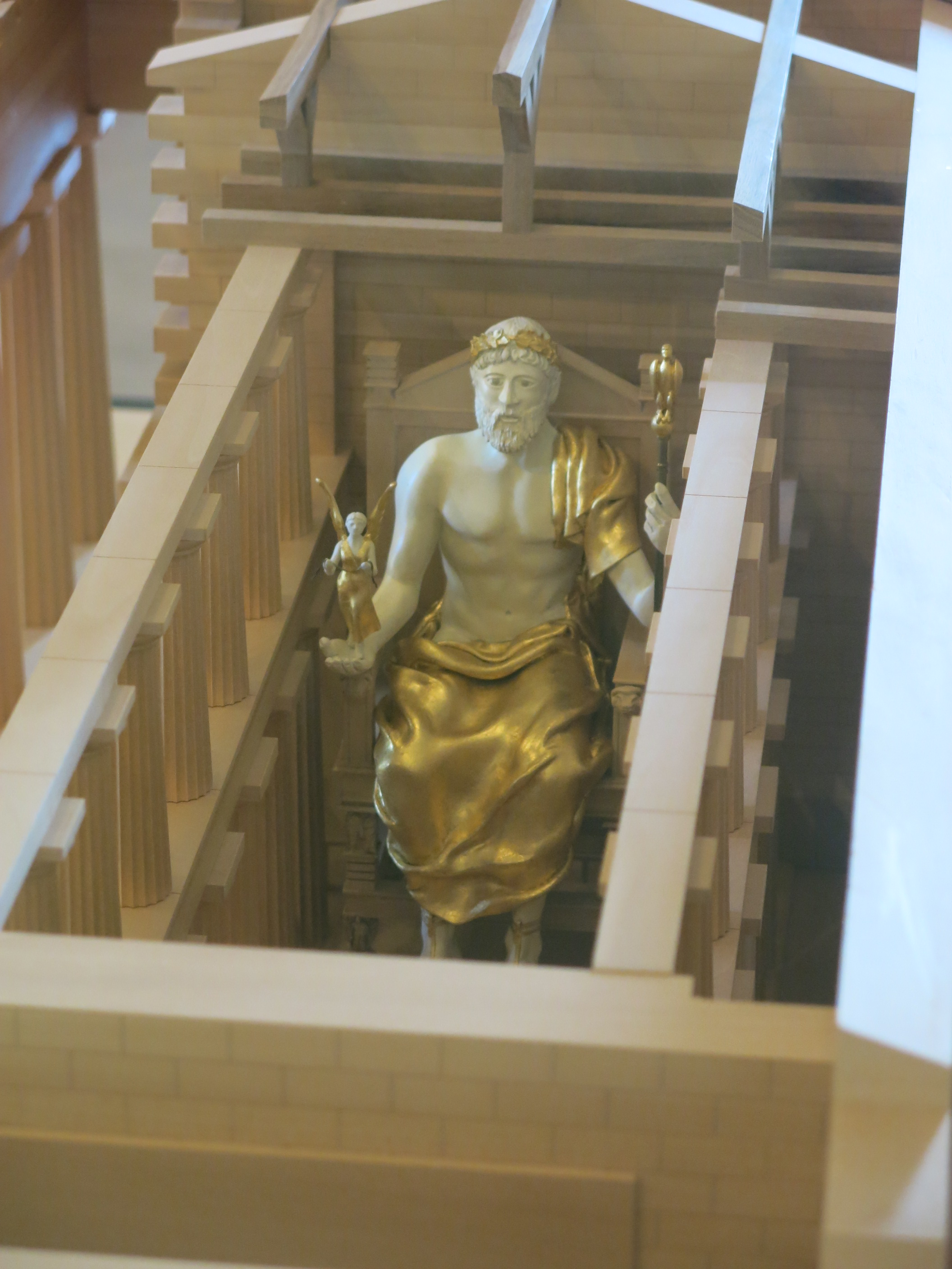 Model of temple of Zeus in Olympia showing the statue of Zeus. Louvre Museum (Paris, France).